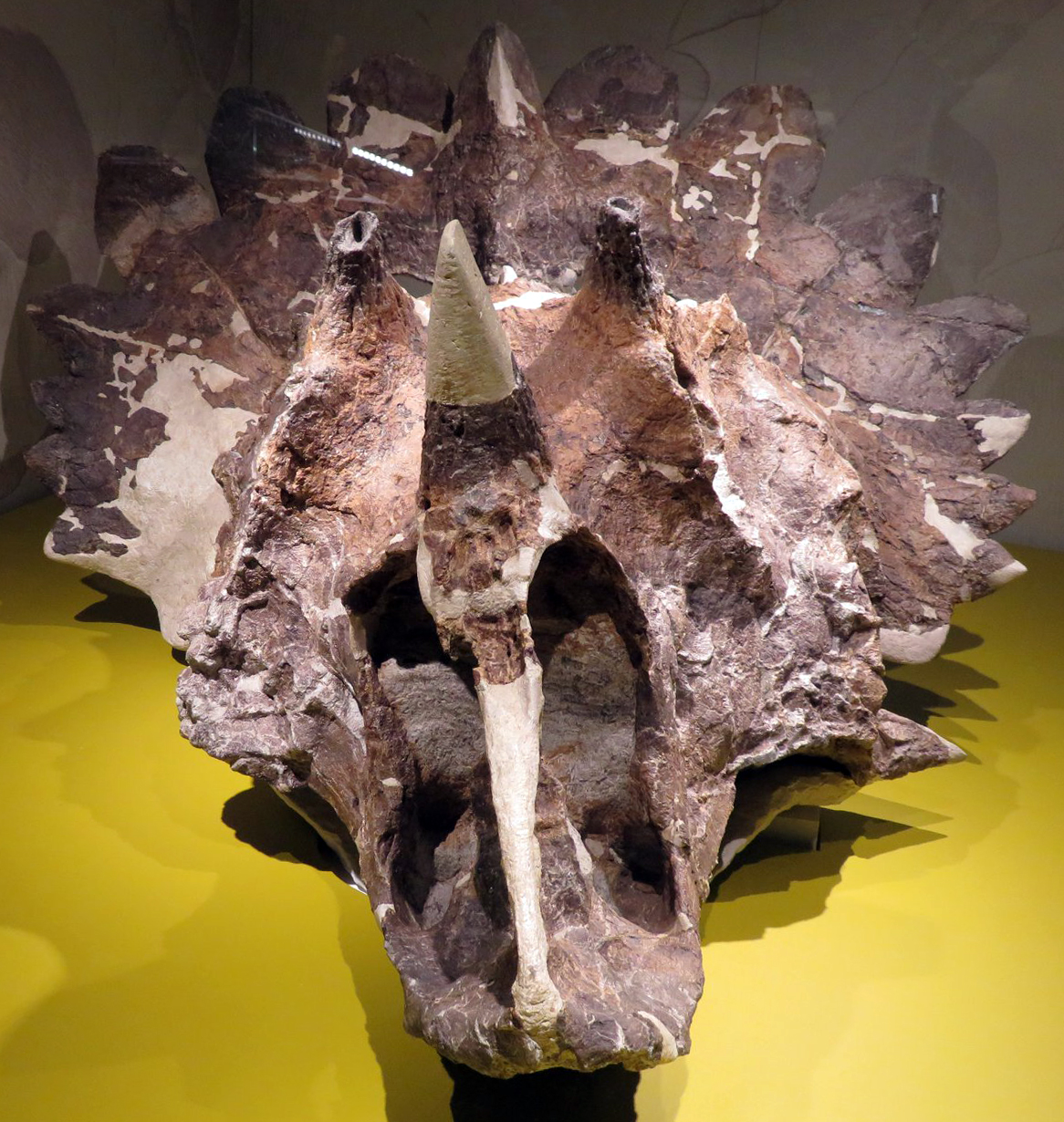 Regaliceratops - Royal Tyrrell Museum.